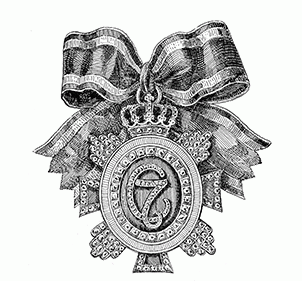 Order of Christian VII on a bow